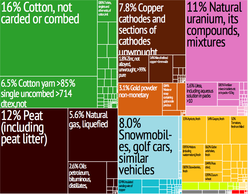 Uzbekistan Export Treemap from MIT Harvard Economic Complexity Observatory